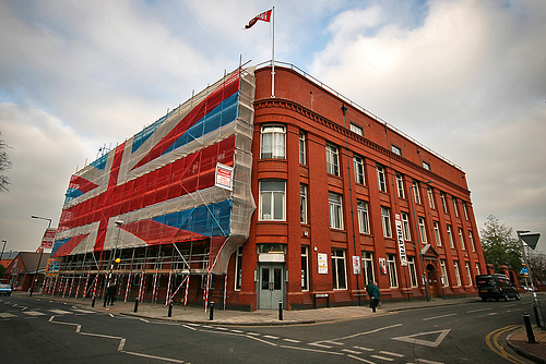 The Tobacco Factory in Bedminster Bristol during renovation work which saw a Union Jack flag covering scaffolding.